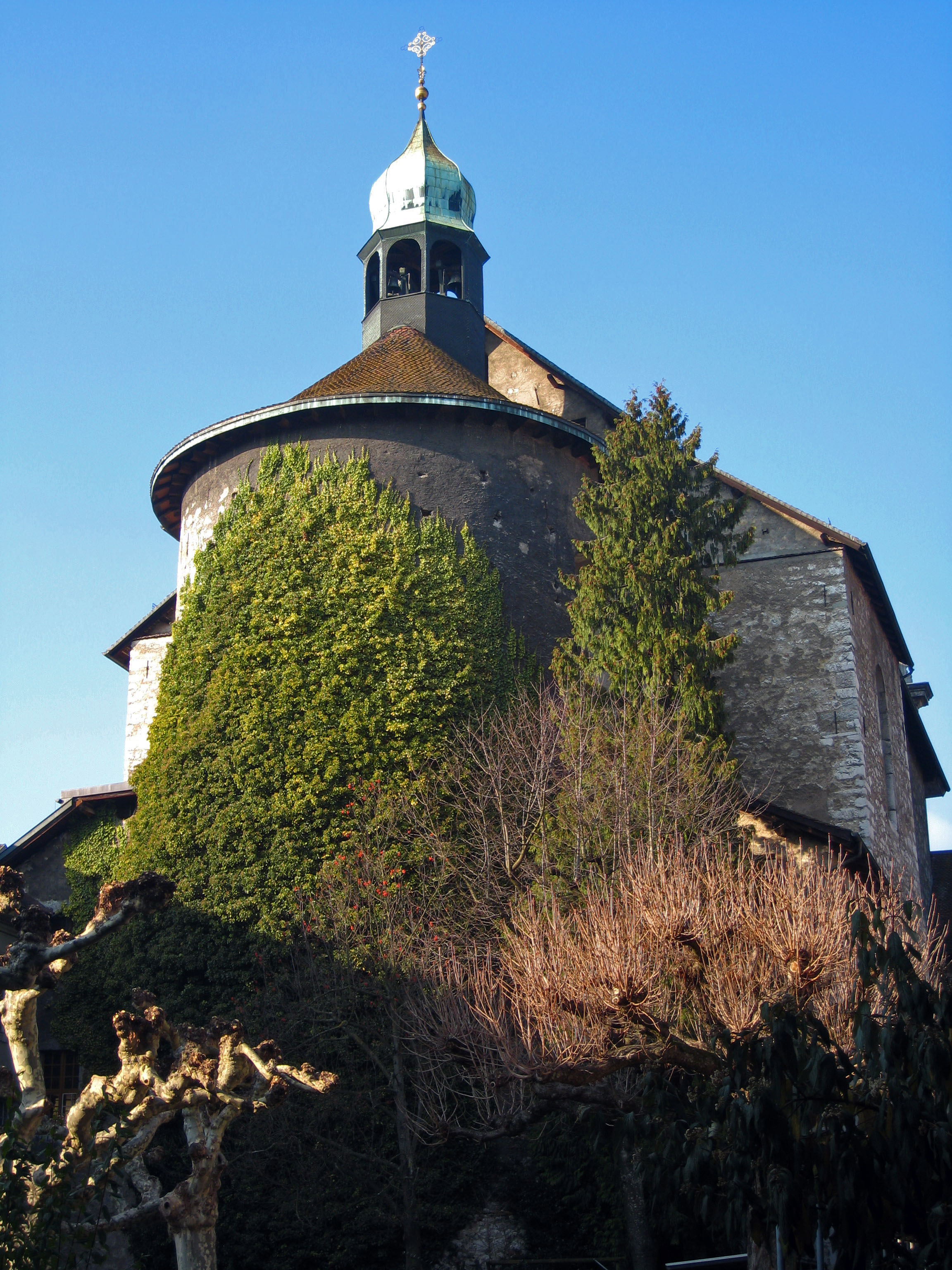 Jesuits' church, Solothurn, seen from the south.